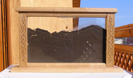 Classic Formicarium